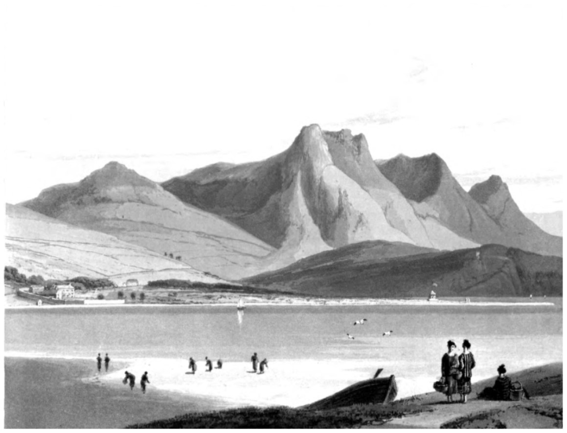 The House of Tongue in the village of Tongue, Sutherland, Scottish Highlands, as drawn c.1822